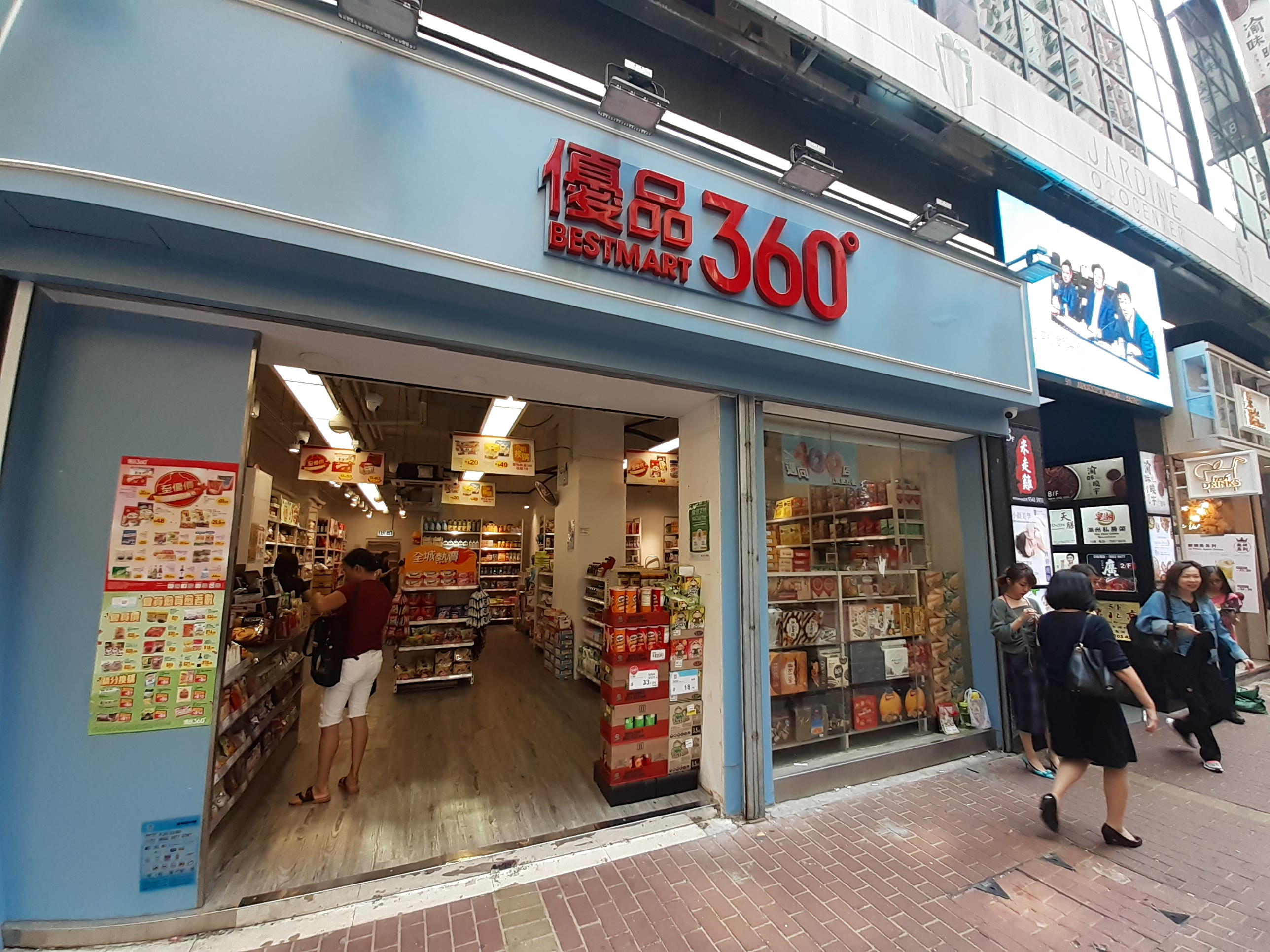 HK CWB 銅鑼灣 Causeway Bay 渣甸街 Jardine's Bazaar in October 2019